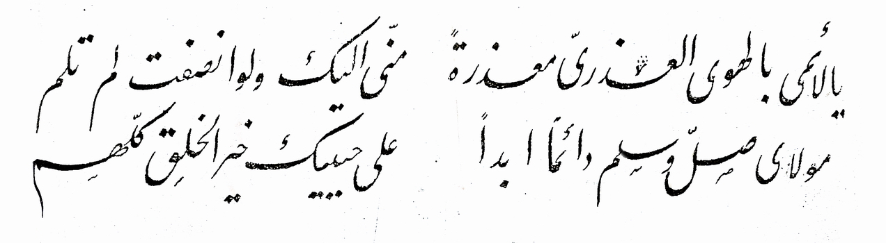 Arabic Calligraphy in Farsi Style drawn by Grand father